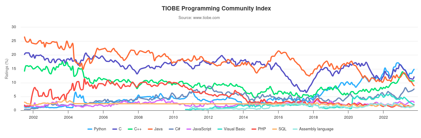 TIOBE programming community index 2002-2014